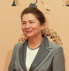 Tatyana Karimova, First Lady of Uzbekistan, on February 11, 2010.